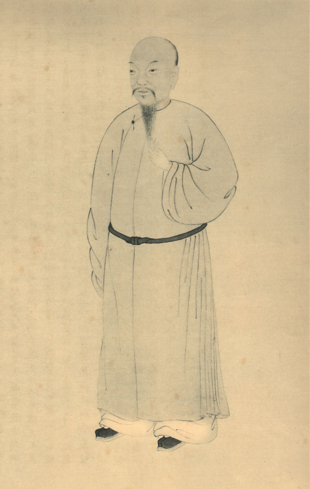 Xiang Shengmo, painter of the Qing Dynasty.